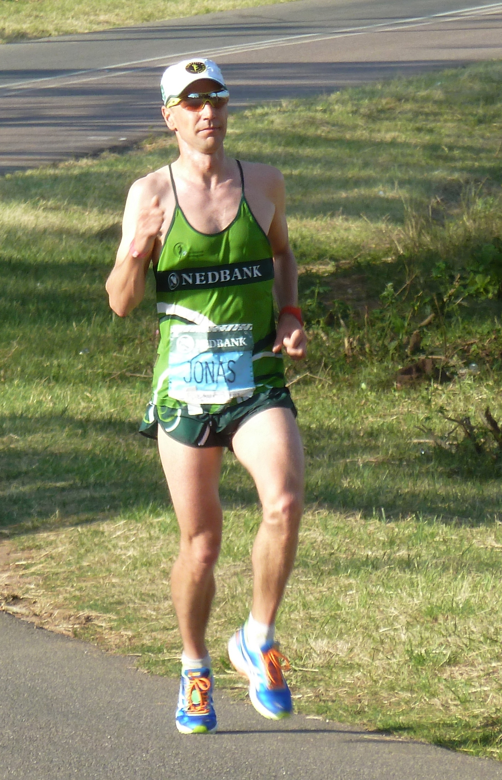 Jonas Buud from Sweden reaches the 50 km mark near Inchanga 3 hours and 14 minutes into the 2013 Comrades up run. He is 8 minutes behind the front runners but with a strong effort towards the end he moves up some 20 positions to finish in second place in 5:41:20.